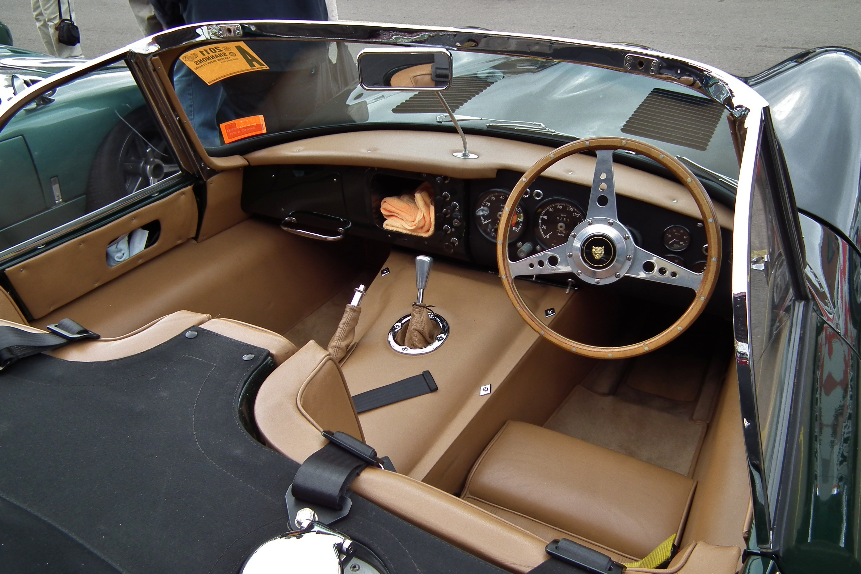 1957 Jaguar XK SS roadster interior. Taken at Shannon's Eastern Creek Classic 2011, held at Eastern Creek Raceway Sydney.